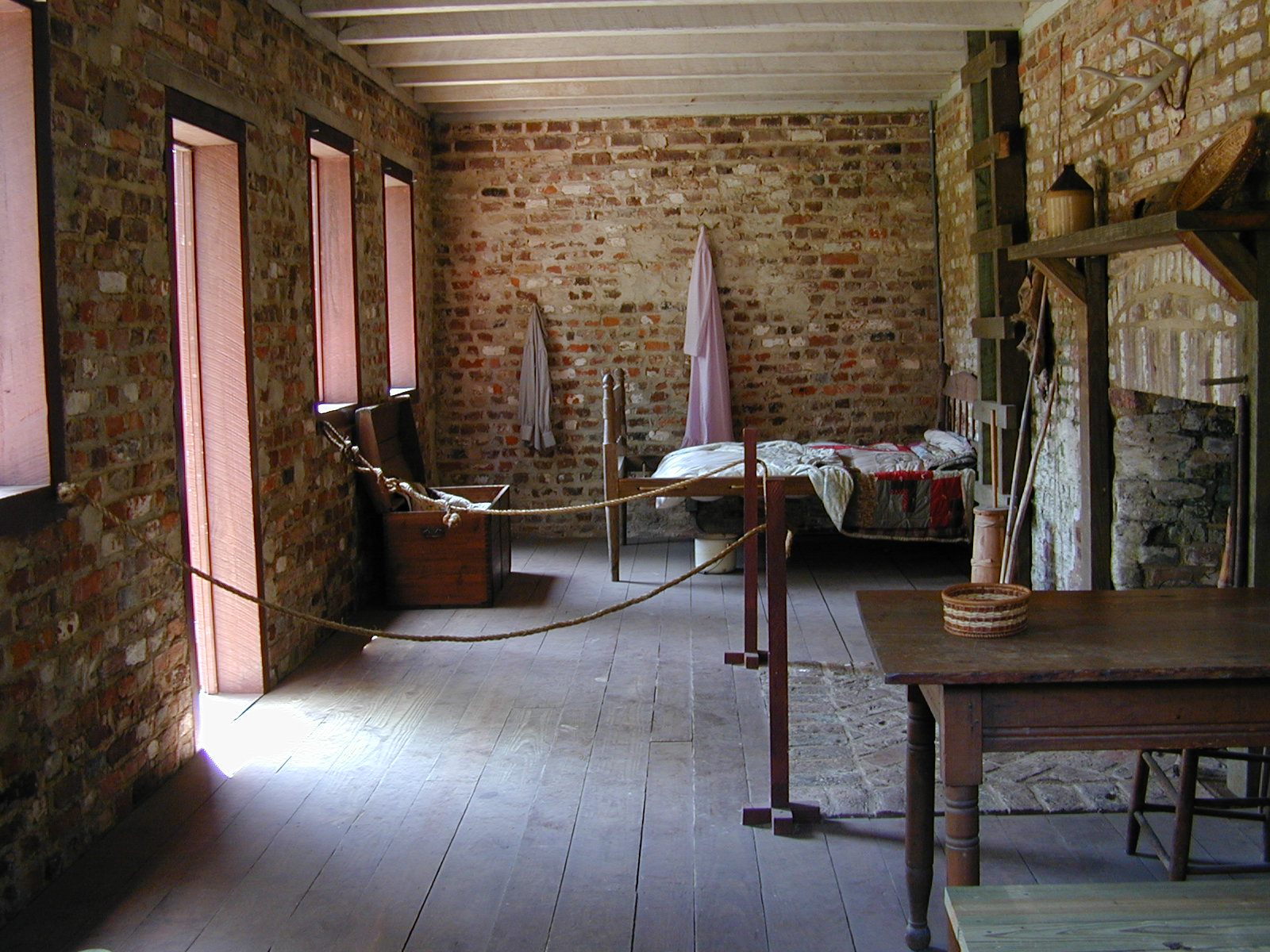 Slave Cabin Interior at Boone Hall Plantation